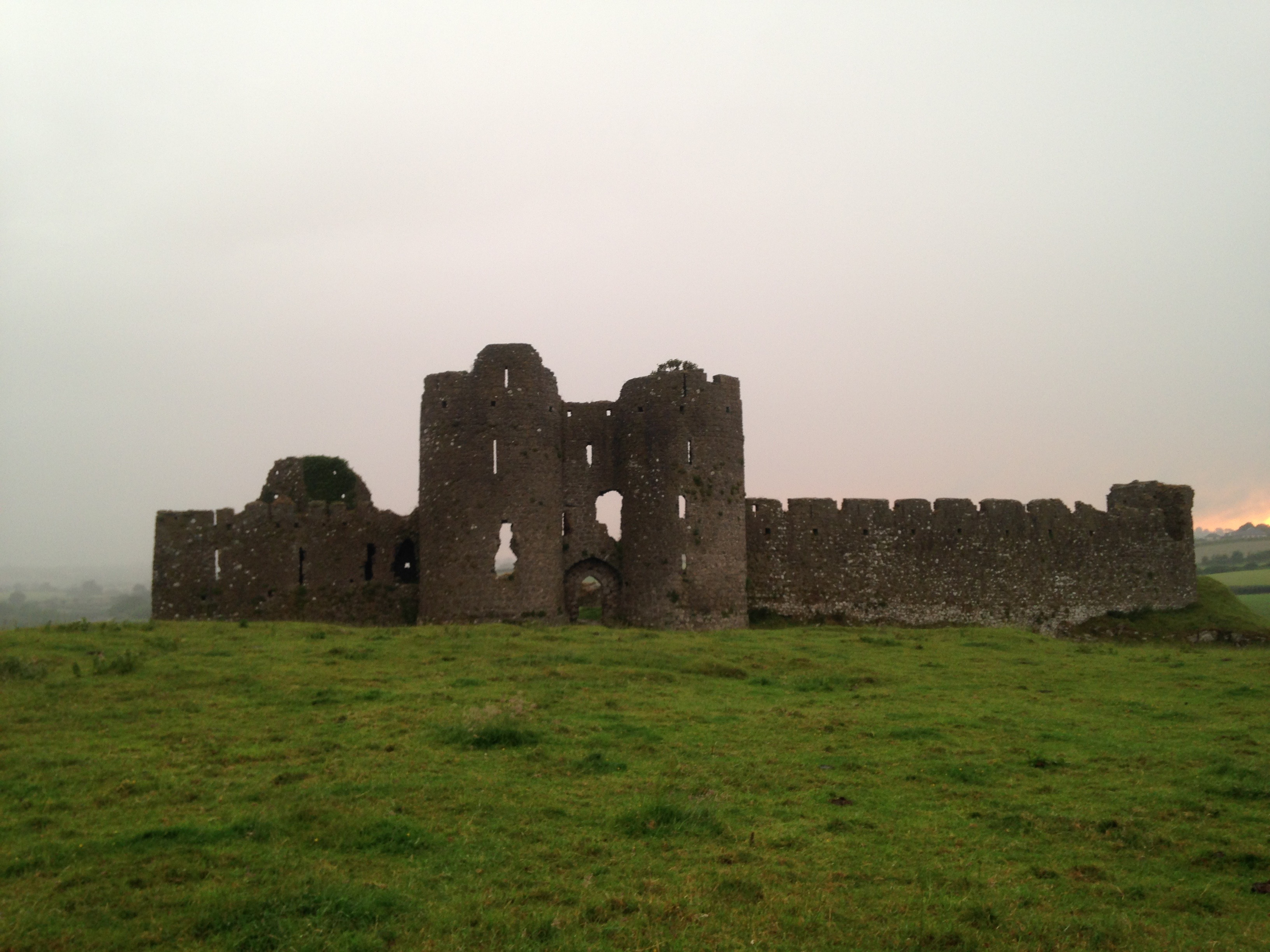 Castle Roche